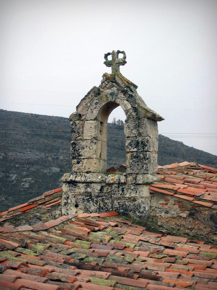 Church of Saint Peter in Barrio de San Pedro, Becerril del Carpio (Palencia, Castile and León).